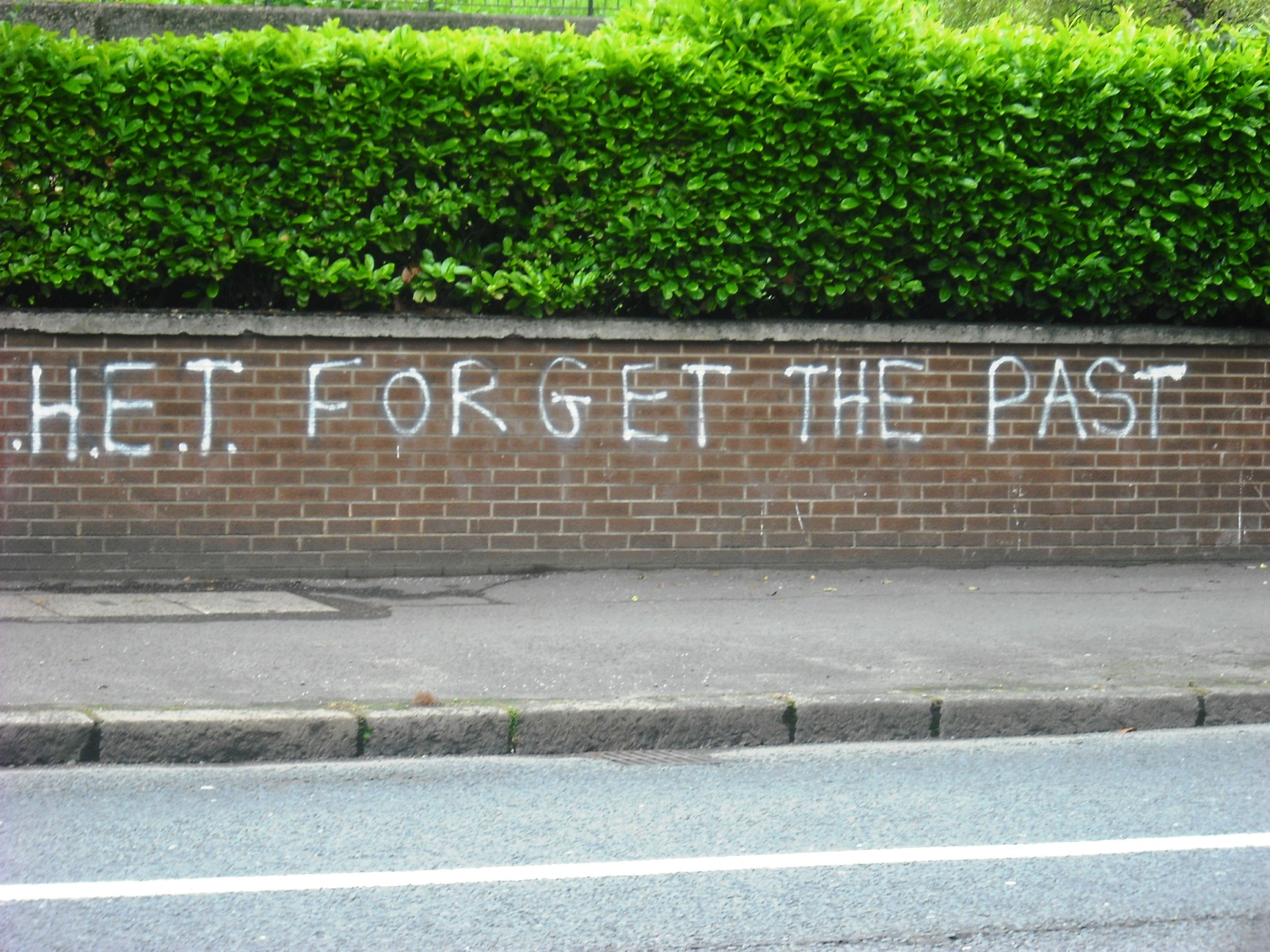 Graffiti attacking the work of the Historical Enquiries Team, Mount Vernon Estate, Shore Road, Belfast